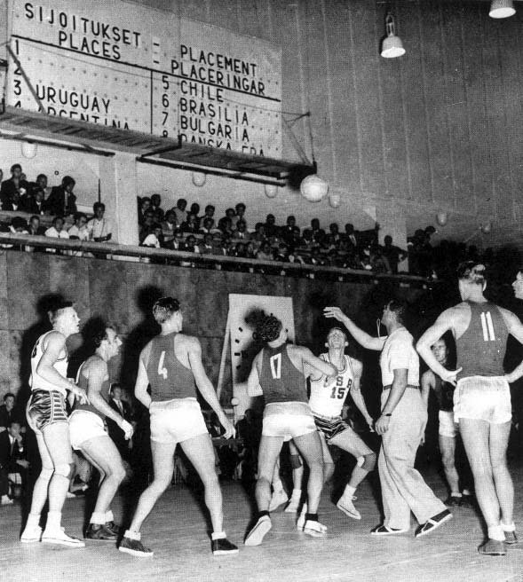 Decisive game between the USA and the USSR